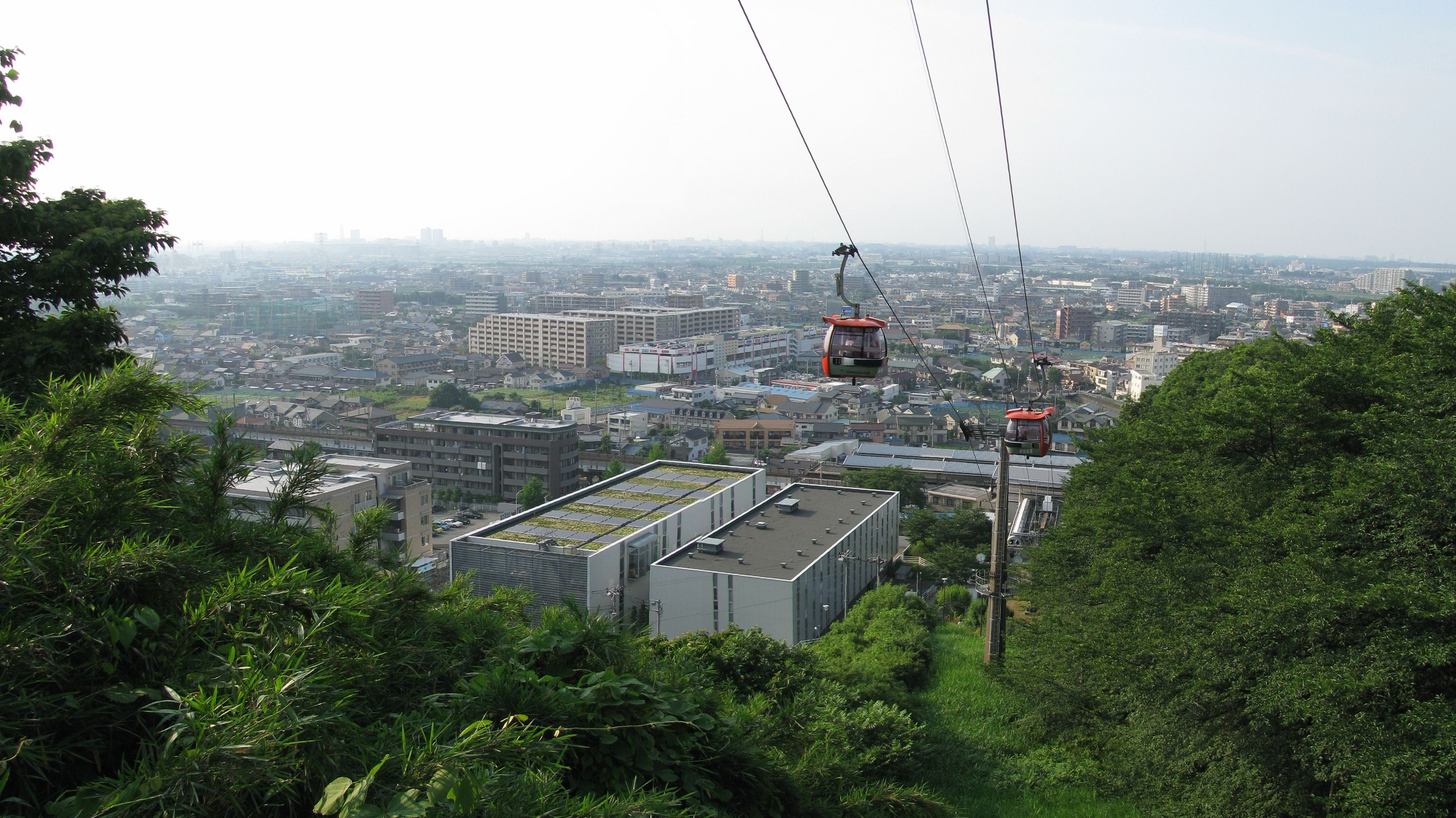 View of the Inagi in Tokyo, Japan.